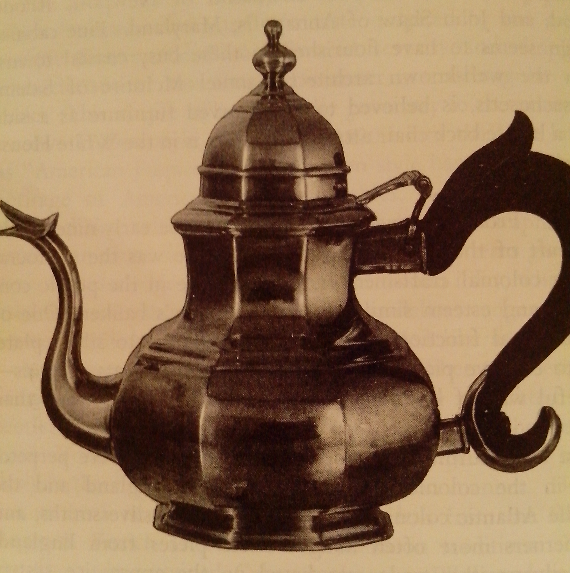 teapot by peter van Dyck Yale university Art Gallery